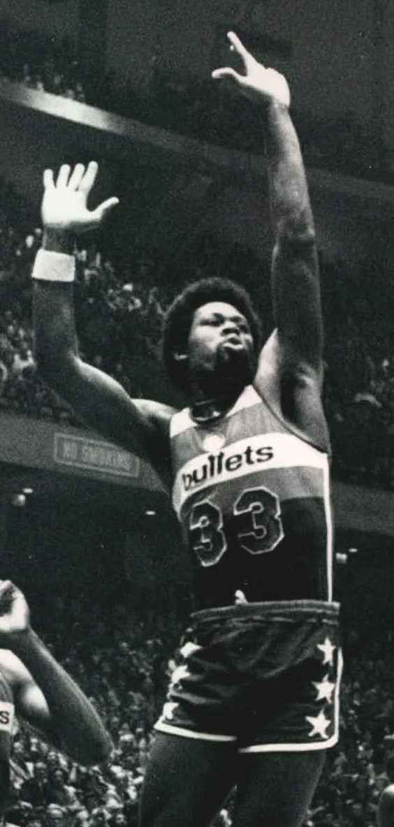 Professional basketball player Truck Robinson